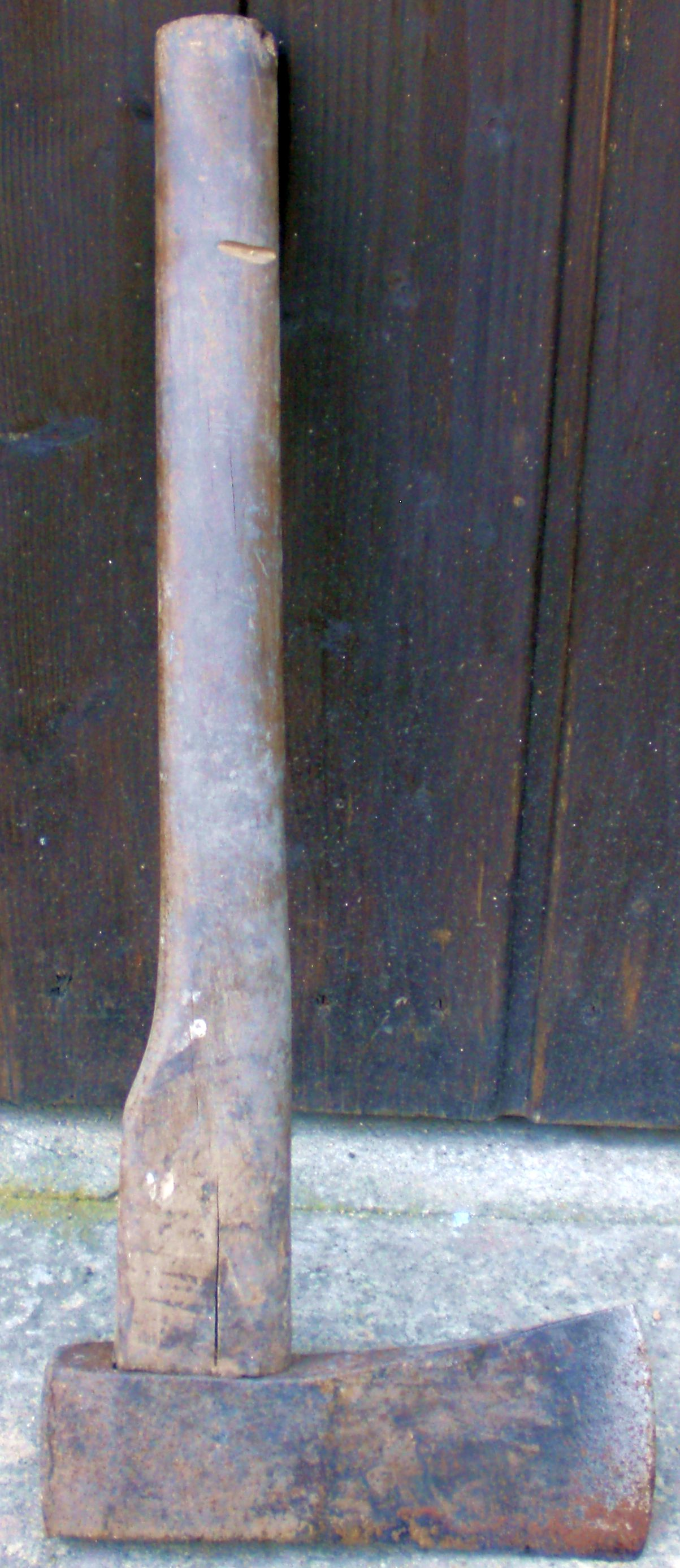 Miner's axe.